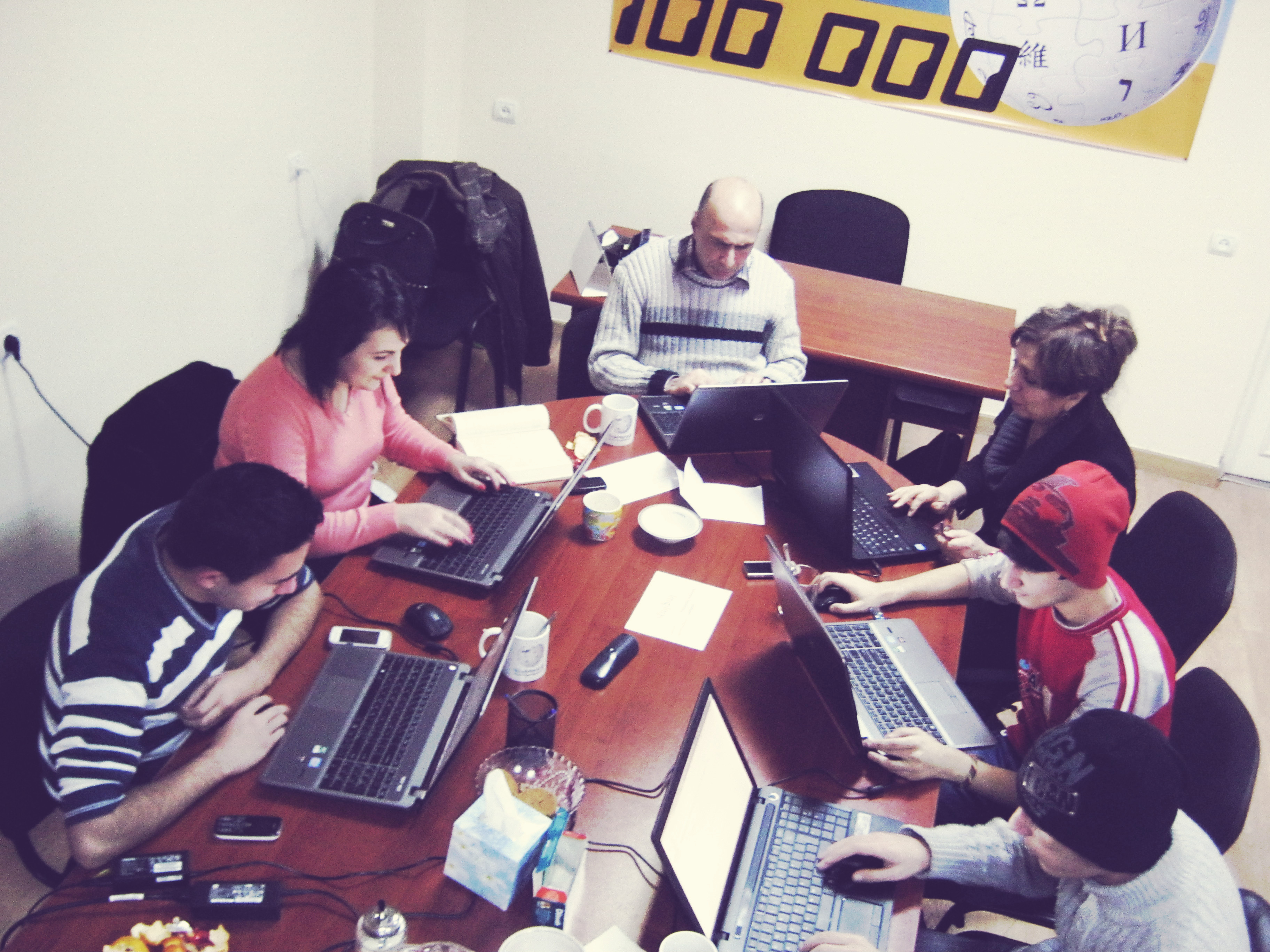 Wikipedia editing workshop, 14 December 2013